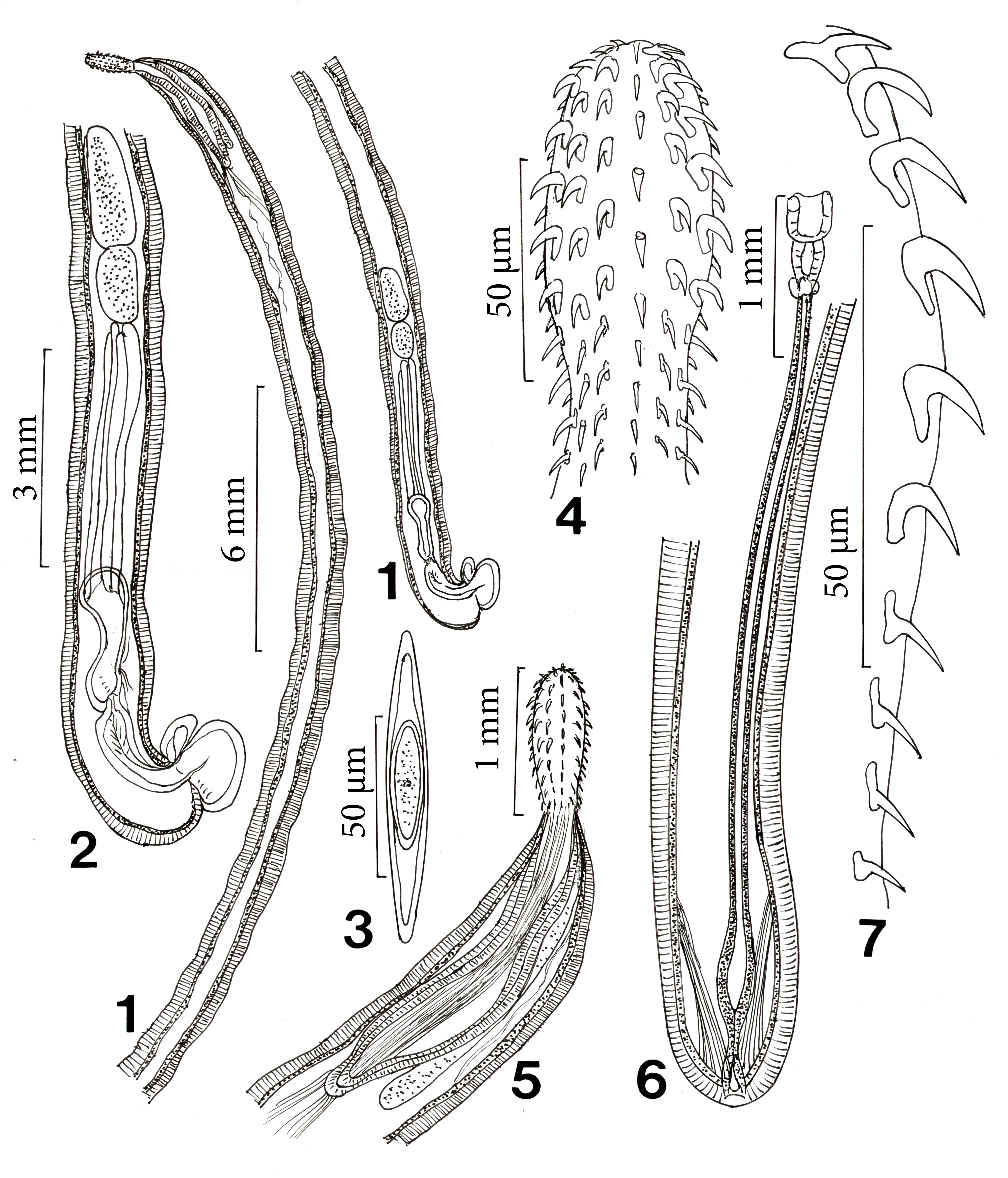 Figures 1-7 of paper Line drawings of specimens of Cavisoma magnum collected from Mugil cephalus in the Arabian Gulf. 1. A male specimen. Note the thick body wall here and elsewhere. 2. The posterior part of the same male in Figure 1 showing the reproductive system. 3. A ripe egg removed from the body cavity. 4. The proboscis of an adult male. 5. The anterior part of the trunk of a male specimen showing the relationship in size and shape of the proboscis, receptacle and lemnisci. 6. Posterior part of the trunk of a female specimen showing the reproductive system. Note the simplified vagina, long uterus, and the two para-vaginal bundles of fanning fibers. 7. One row of proboscis hooks showing three types of hooks/roots, the anterior-most hook with lateral hook with prominent manubrium, the regular subapical hooks with posteriorly directed roots, and the posterior hooks with root stubs and anterior manubria. The hooks and inter-hook spacing are identical to those in actual specimens.